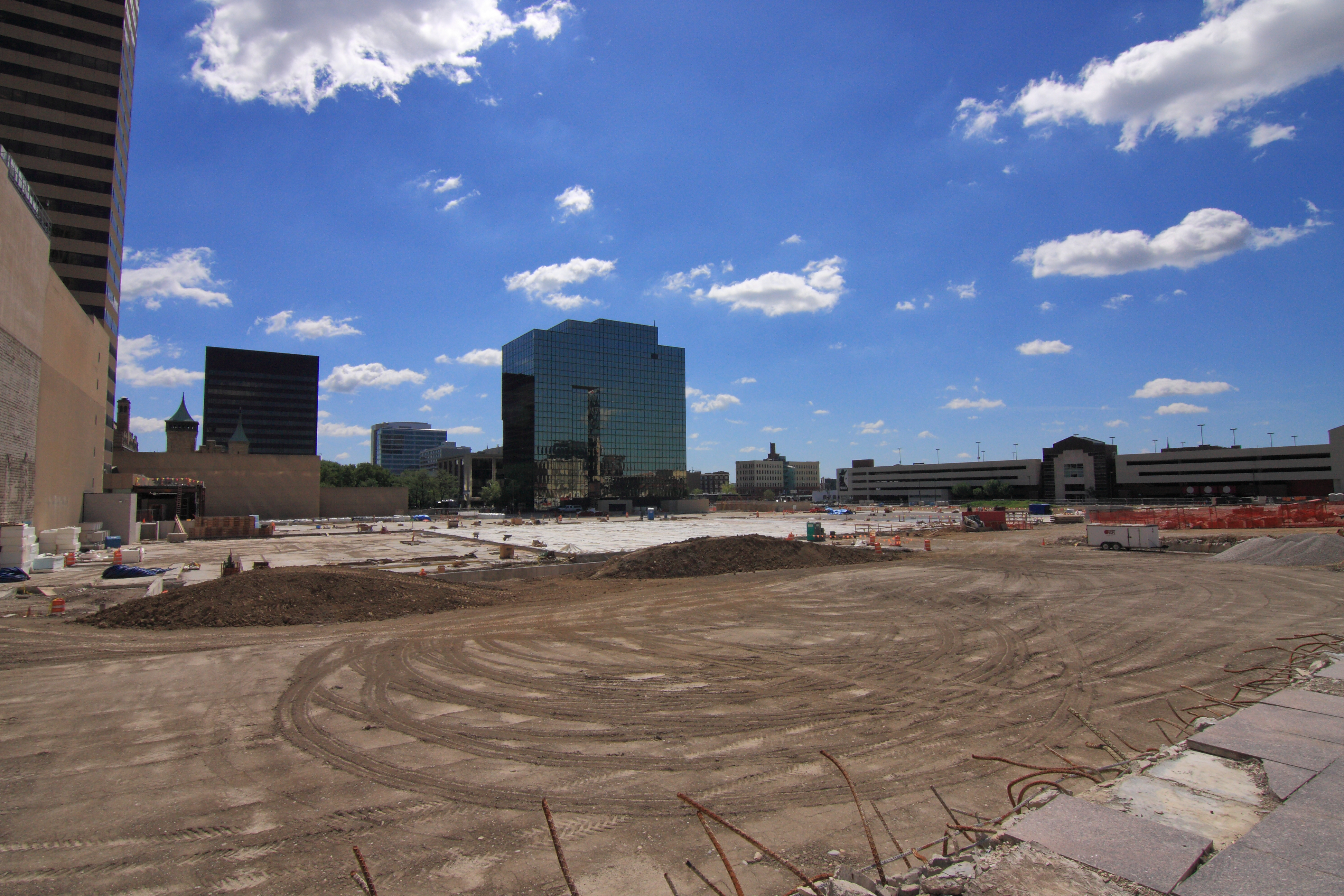 The spot where City Center used to be in Columbus, Ohio.